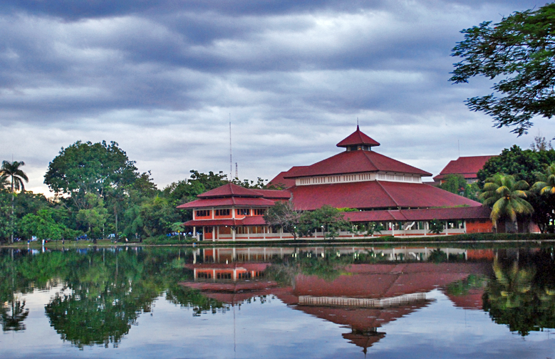 Ukuwah Islamiyah Mosque, University of Indonesia, Depok